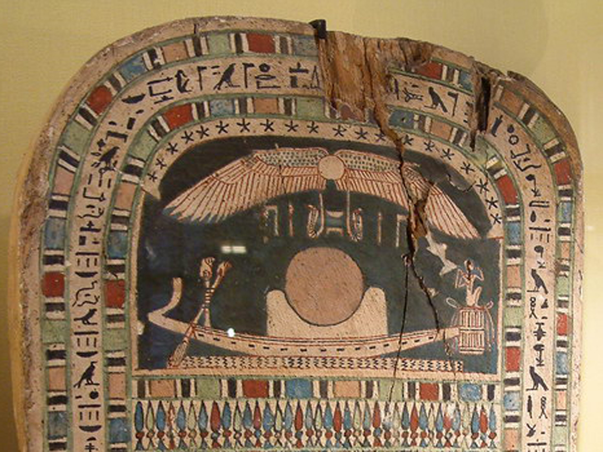 A solar barge (also solar bark, solar barque, solar boat or sun boat) on an Ancient Egyptian painted wooden stele of the 26th dynasty of Egypt.